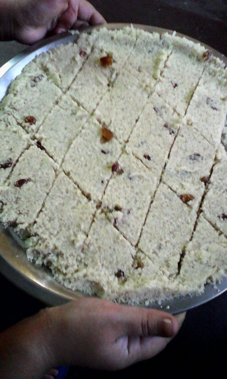 SOOJI BARFI